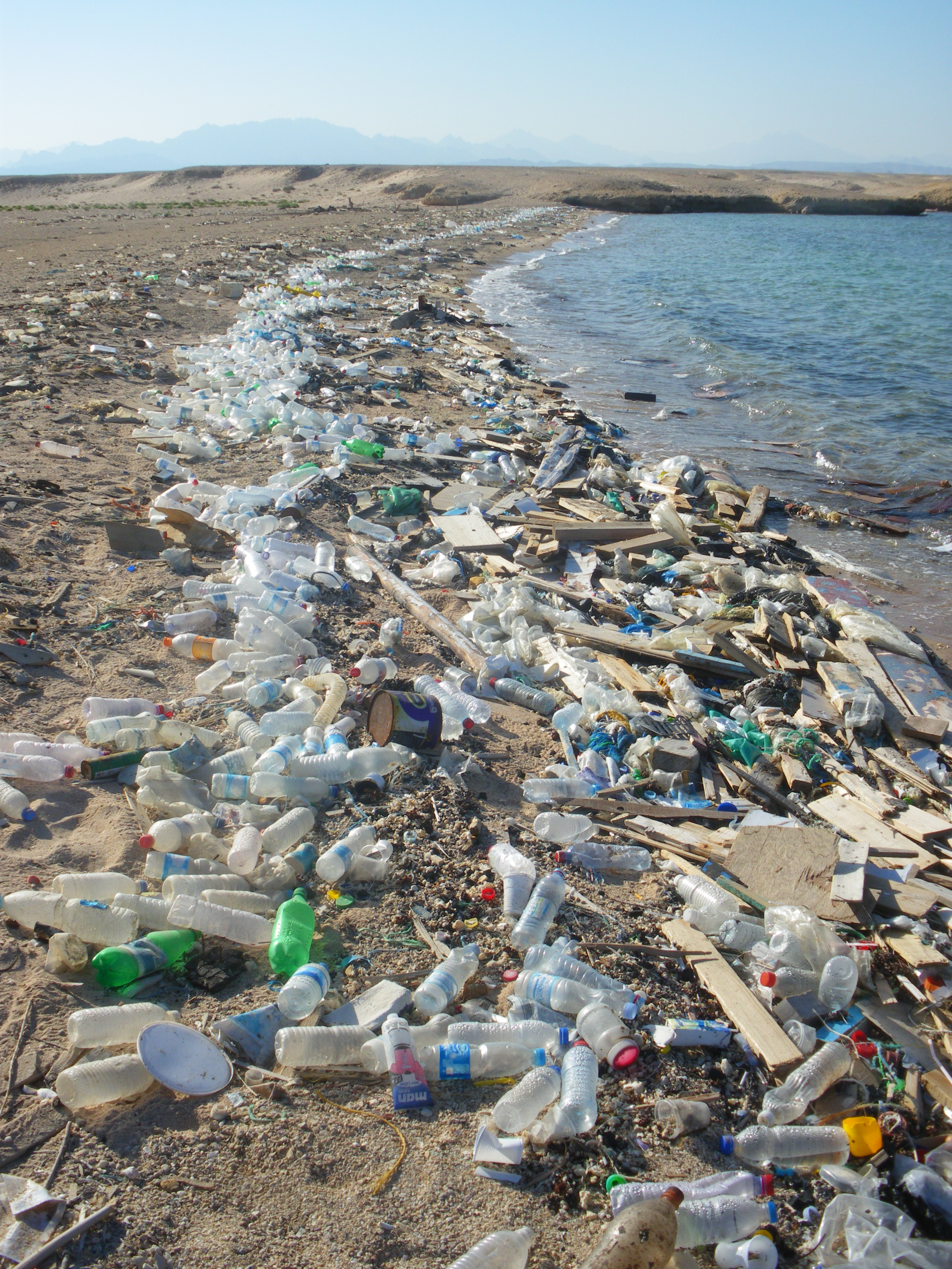 Polluted Beach on the Red Sea in Sharm el-Naga, Port Safaga, Egypt